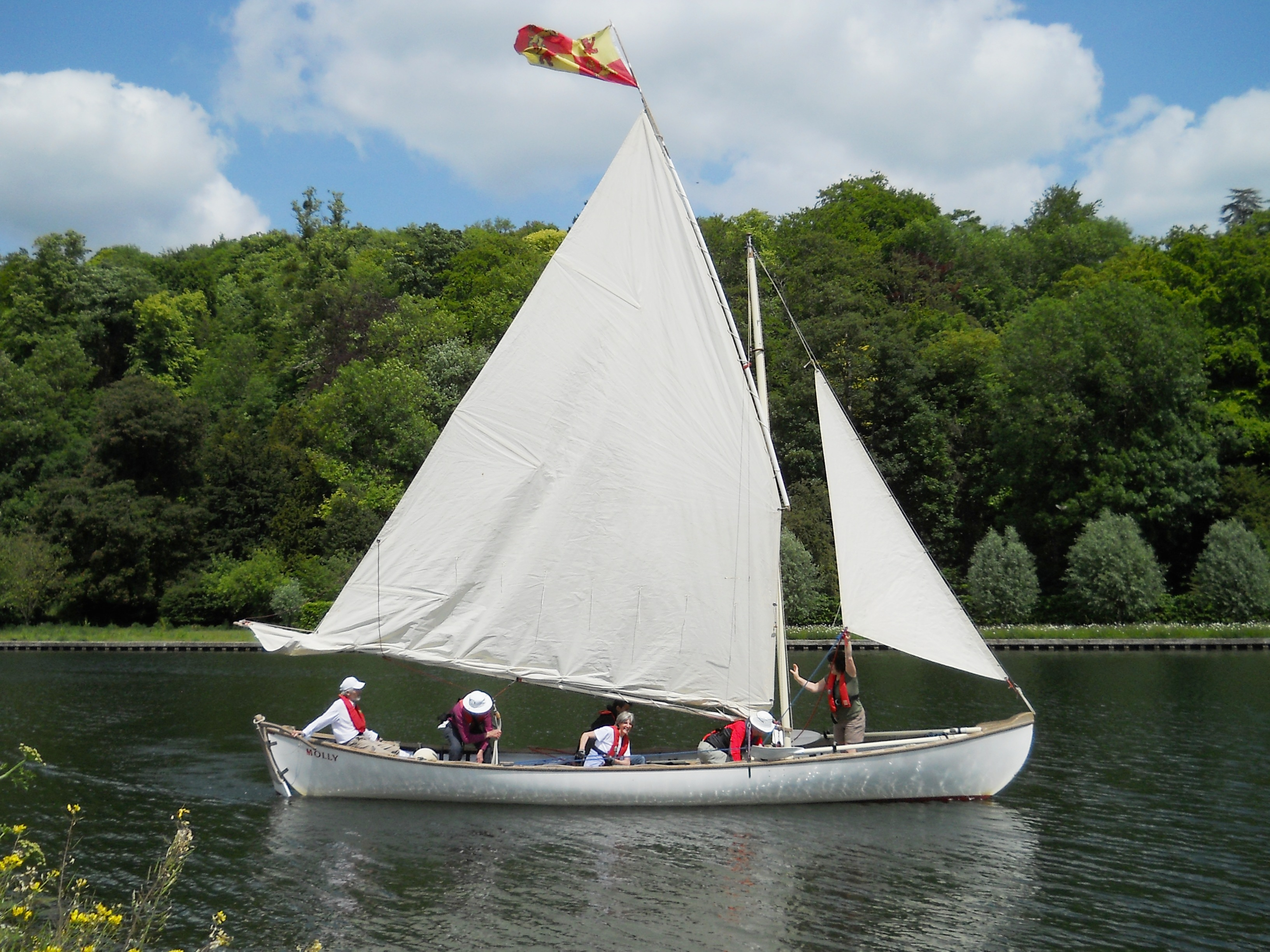 Sailing with students near Henley on Thames 21stMay2011DSCN0276v2